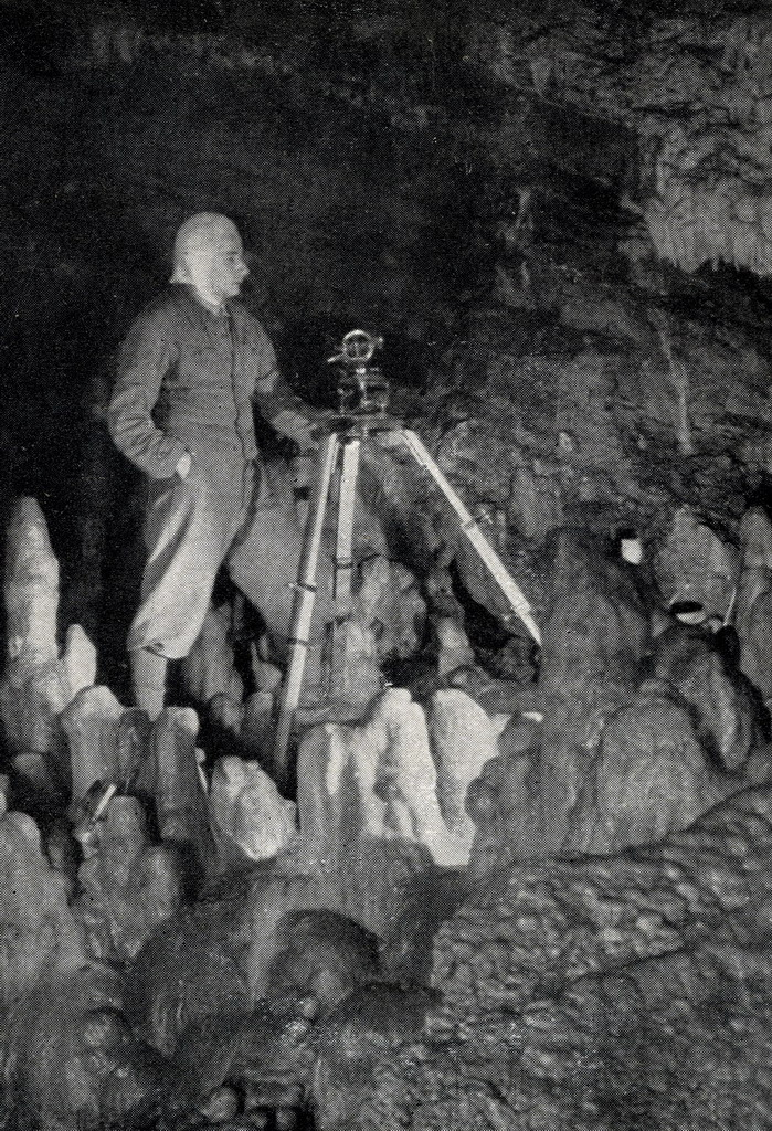 Hubert Kessler during survey of Baradla Cave